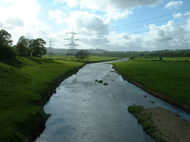 River Calder, near Altham, Lancashire. Looking Northwest.